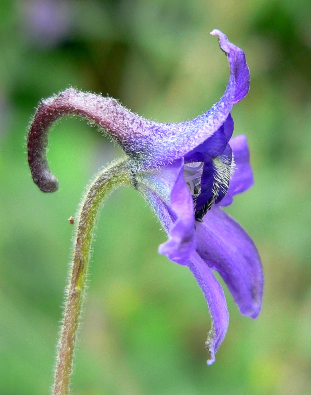 Photo of Delphinium ceratophorum at the UBC Botanical Garden in Vancouver